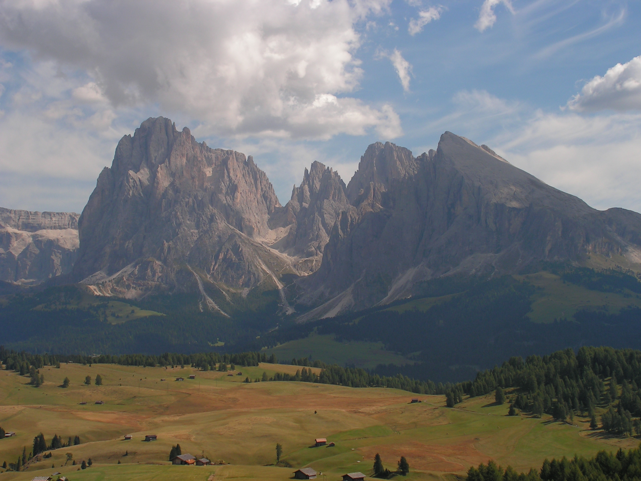 The Sassolungo (Langkofel) from the Alpe di Siusi (Seiser Alm)